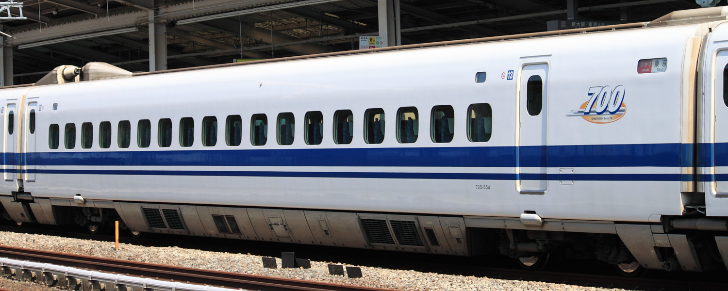 Shinkansen Series 700(725-554) in Nishi-Akashi Station